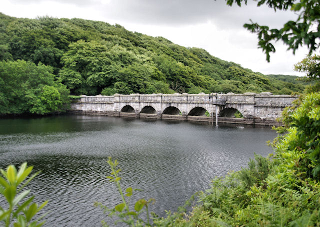 Burrator Dam Looking southish to the western dam.